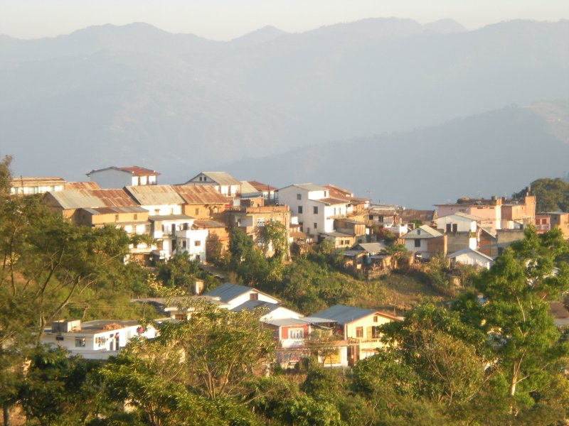 A view of Dhankuta Bazaar from the northern side.